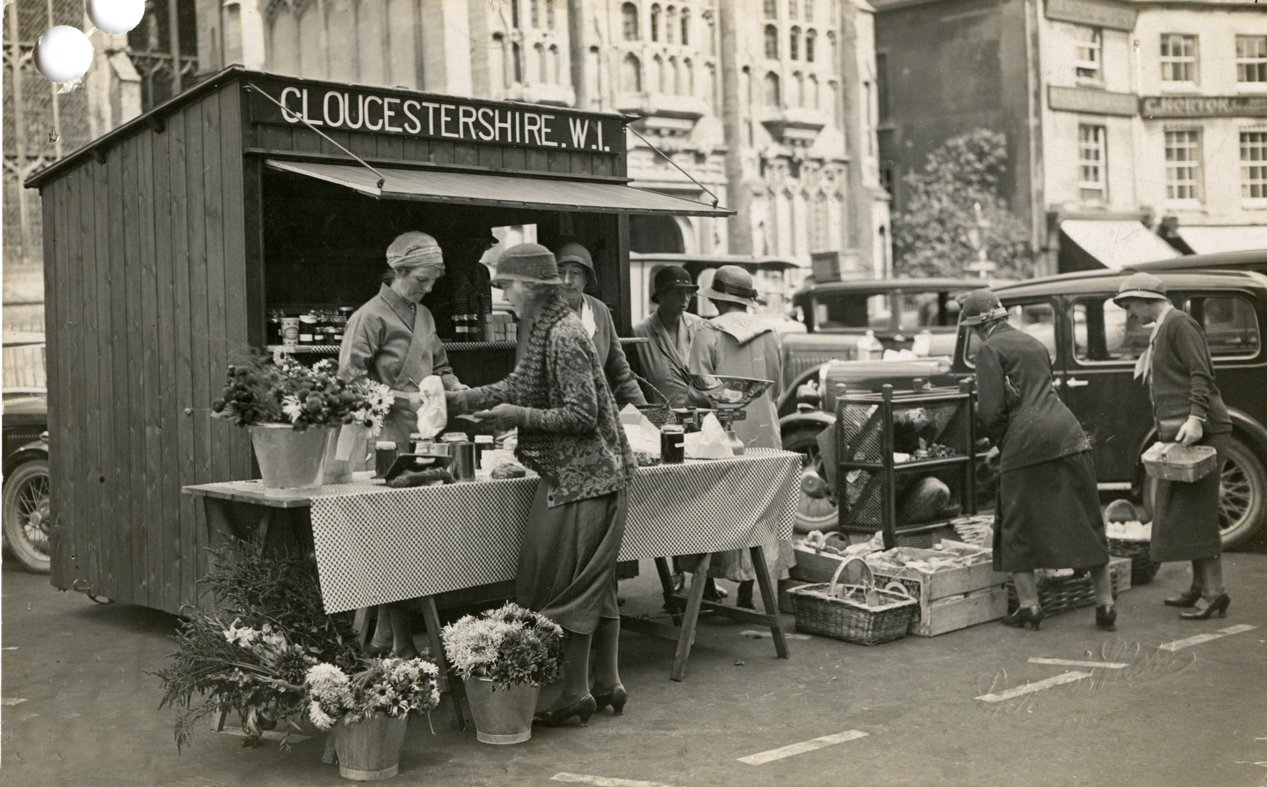 5FWI/B/2/2/46/003 Post Card, printed paper, monochrome, Gloucestershire WI market stall women serving customer, flowers, vegetables, preserves on display